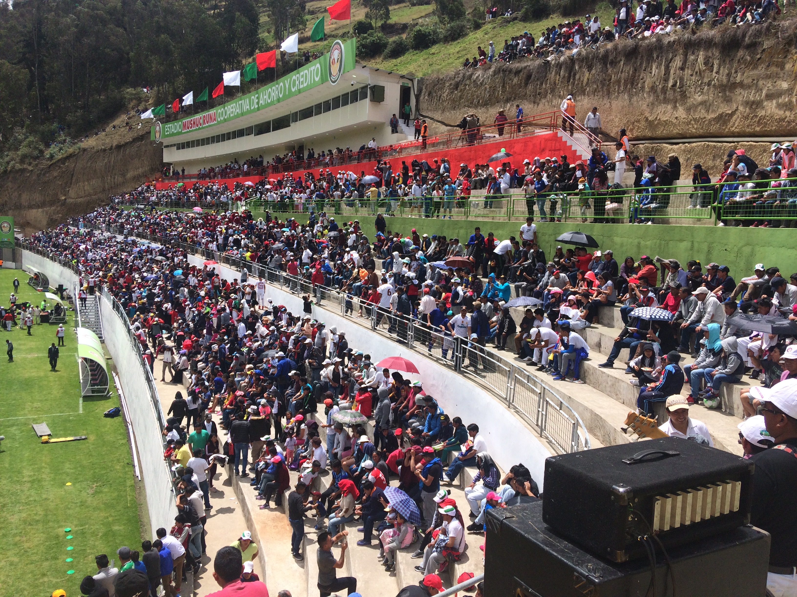 Estadio del Mushuc Runa en el medio tiempo del partido Mushuc Runa-Orense donde el ponchito ganó 3-0